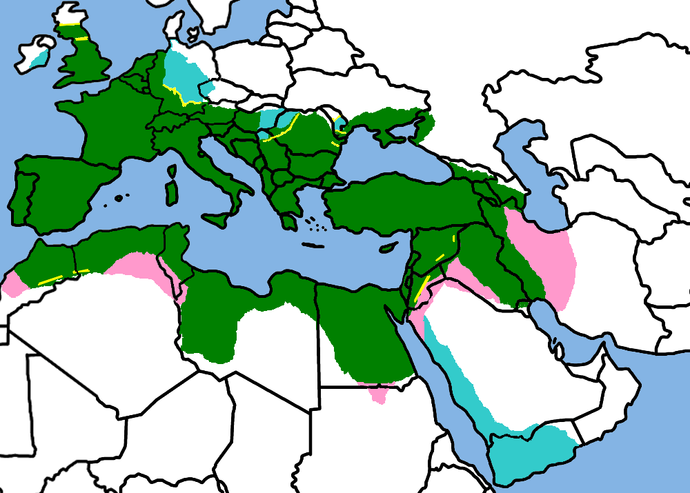 IMPORTANT IRELAND IS PAINTED BECAUSE THERE DID EXIST AN ATTEMPT TO INVADE IT, EVEN IF IT DIDN'T WORK. cyan means that the conquered land was never a Roman province because of local resistance (Germany, Ireland, east Hungary) possiblity of external invasions if romans tried to romanize (southern Moldavia, Yemen) Map of the Roman Empire in it's greatest expansion, following the same proportional relations (that means, positions are exactly copied) of the Nuovo Atlante Storico De Agostini, by "Istituto Geografico De Agostini", ISBN 88-451-3698-5 Invalid ISBN . Novara 1995. The briefly occupated teritories (cyan and pink) are from the Corso di storia antica e medievale 1 (seconda edizione) by Augusto Camer and Renato Fabietti ISBN 88-08-24230-7 World shape is Image:A large blank world map with oceans marked in blue.gif There was a notion that Ireland be invaded and conquered, but no attempt was ever made. There is sparse evidence of Roman influence/contacts in Ireland, but that suggests nothing more than a trading relationship. Shtove.--80.6.163.58 20:28, 17 December 2006 (UTC)